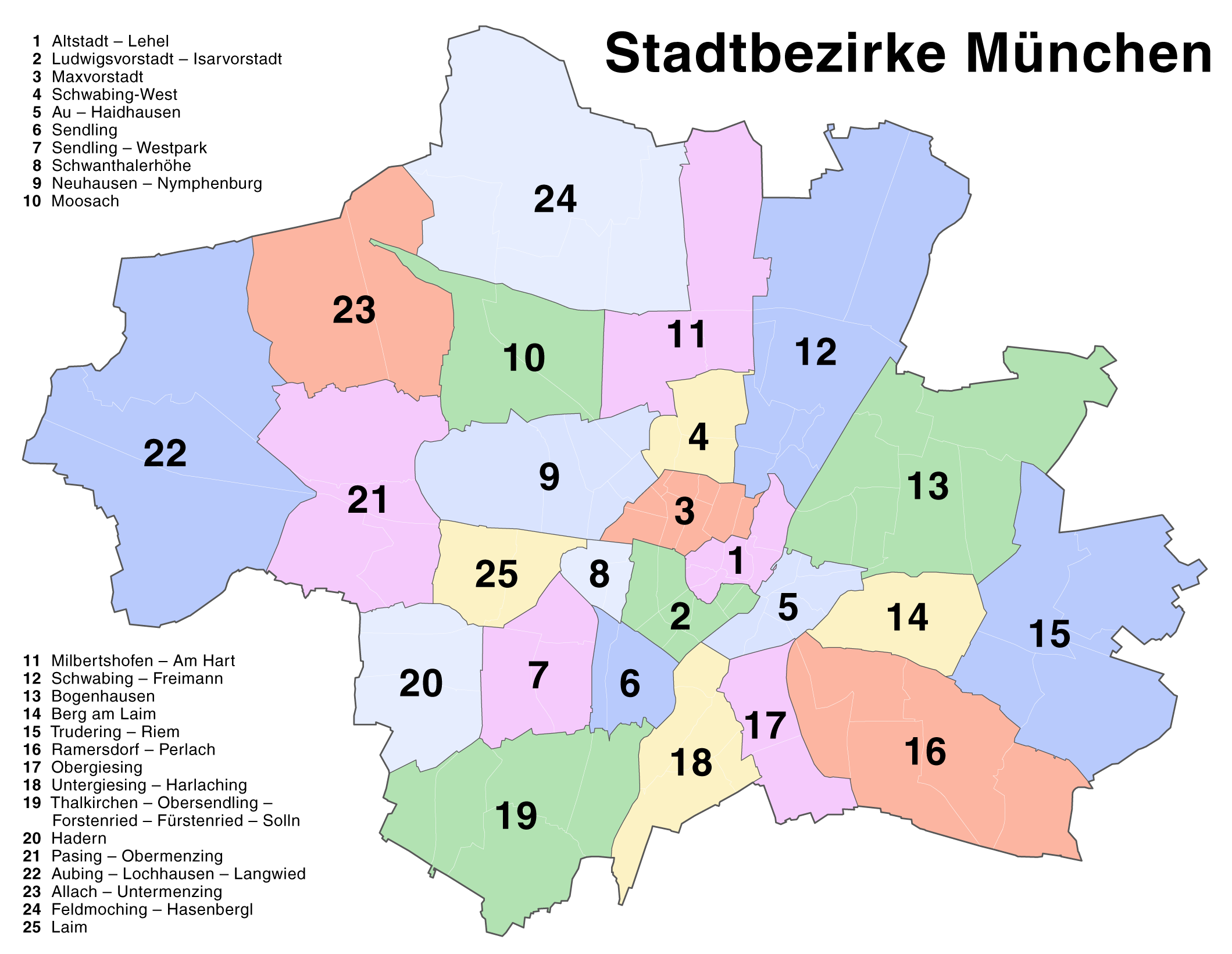 Boroughs of Munich map series